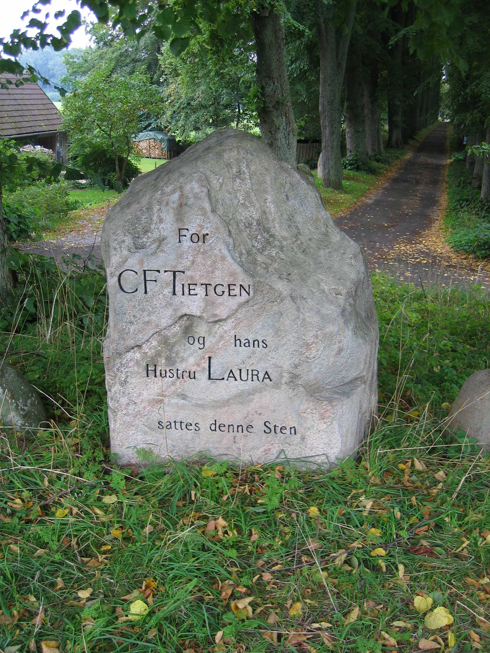 Monument over Carl Frederik Tietgen and wife Laura at his former estate Strødam at Gadevang, Denmark